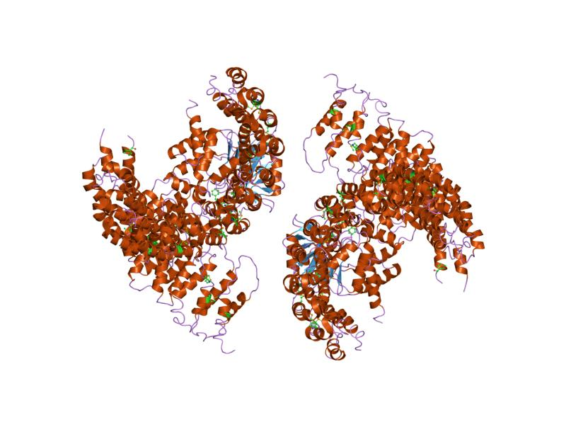 Cartoon representation of the molecular structure of protein registered with 2nyl code.